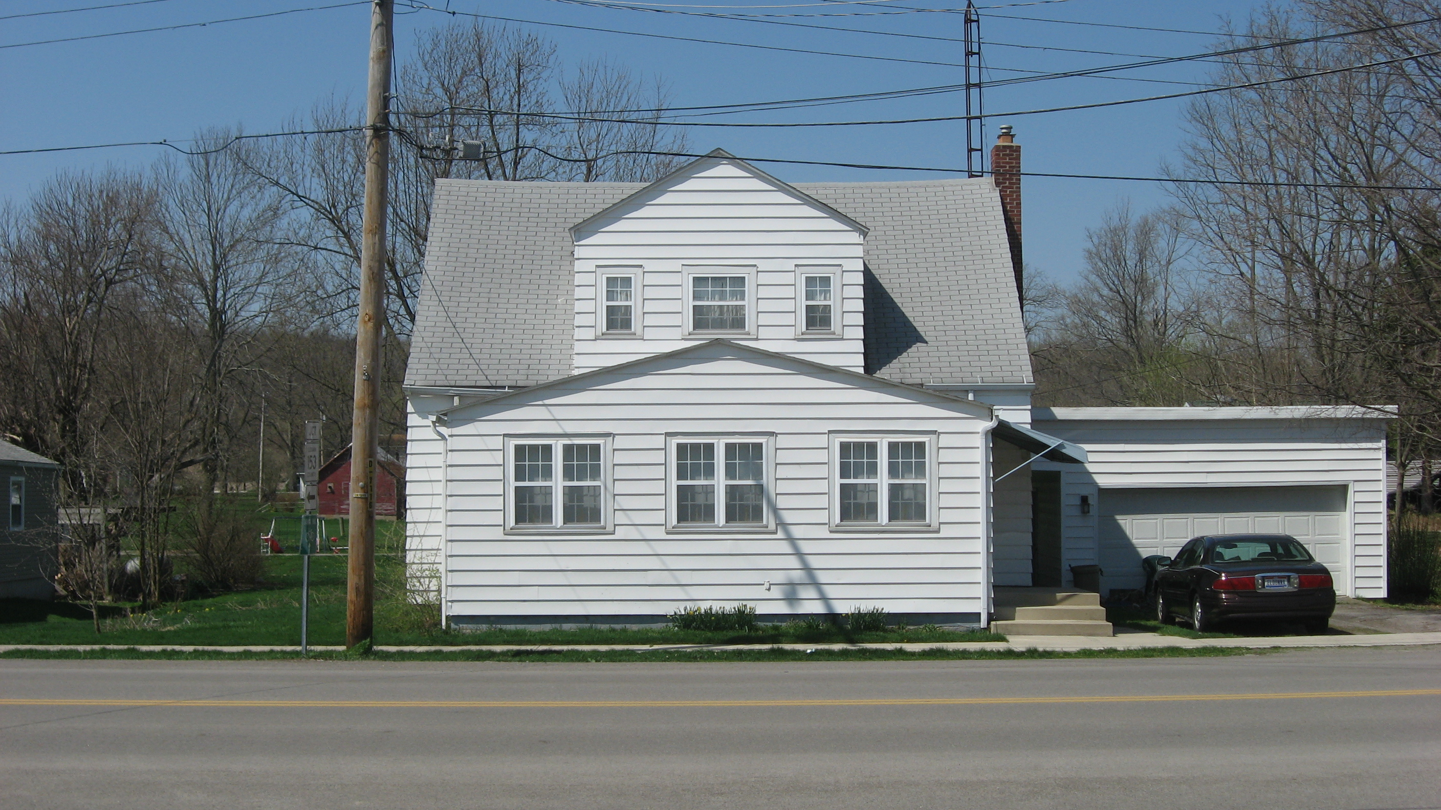 Front of the house at 2820 Sandusky Street (County Road 5) in Zanesfield, Ohio, United States. This house occupies the site of the log cabin where Earl Sloan grew up.